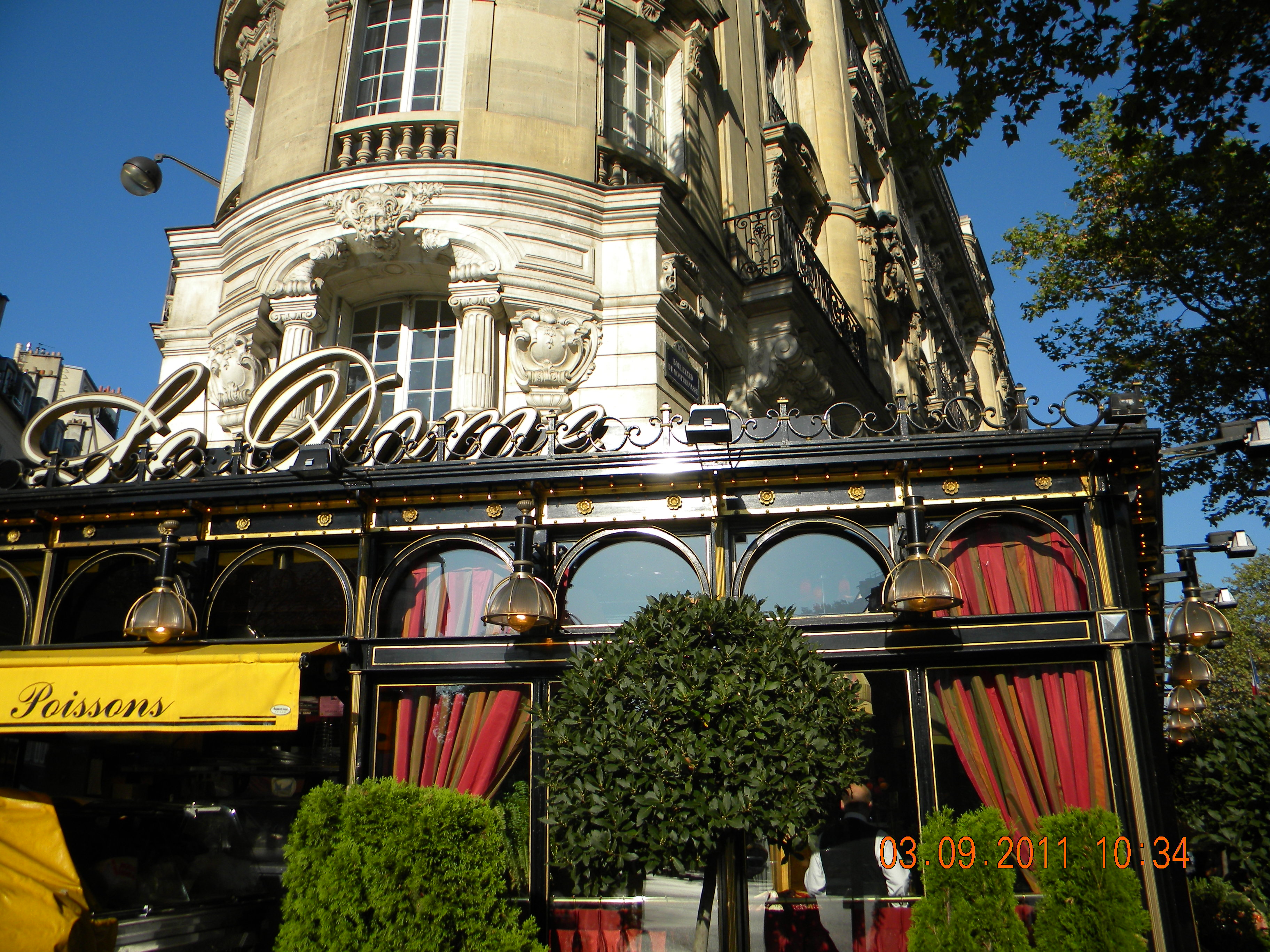 Le Dome on Boulevard Montparnasse, Paris